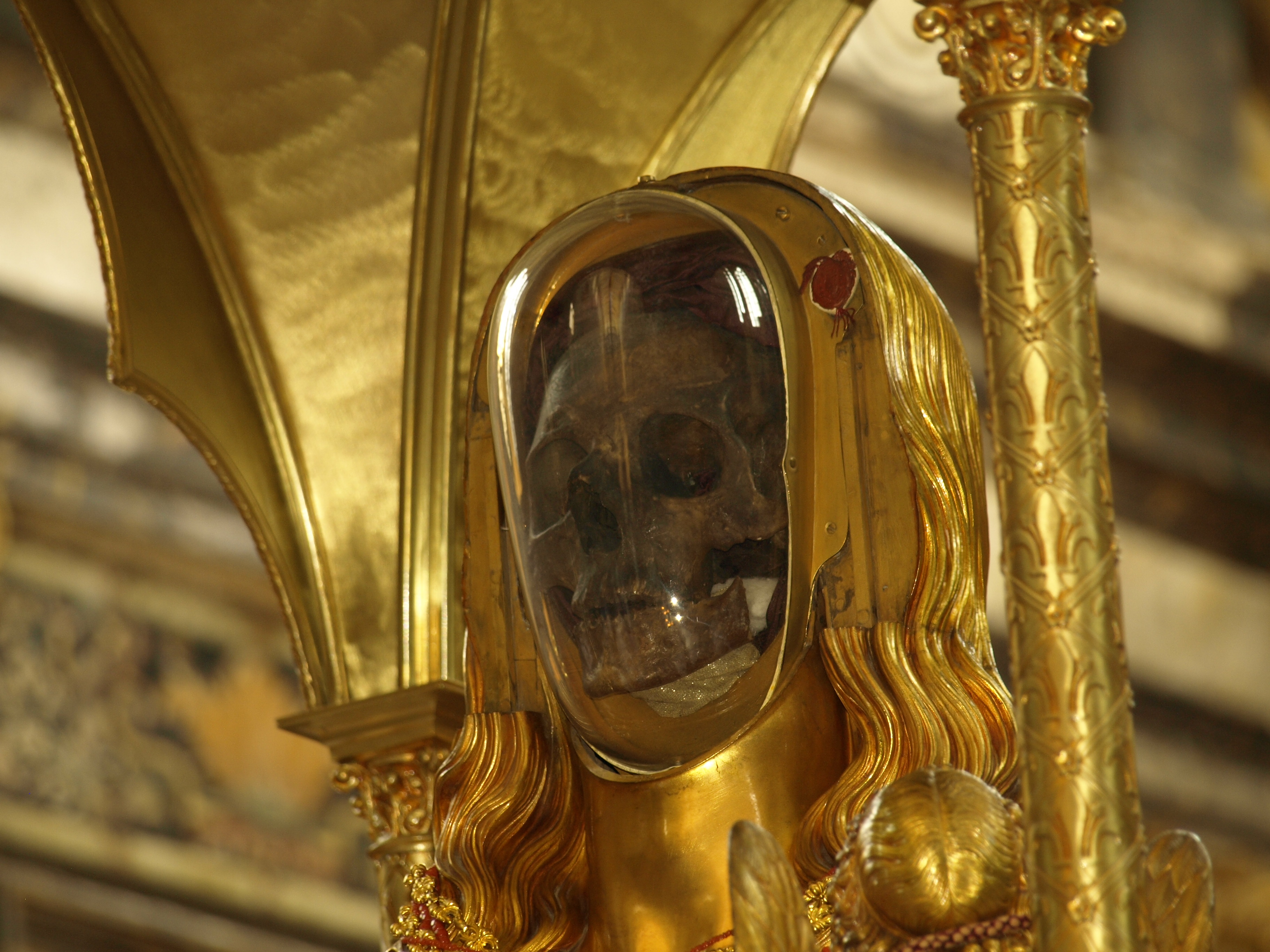 Skull relic of Mary Magdalene in Saint-Maximin-la-Sainte-Baume, France